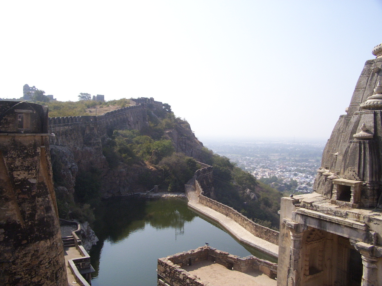 Photo of a reservoir inside Chittorgarh Fort, with the town in the background (Rajasthan, India)